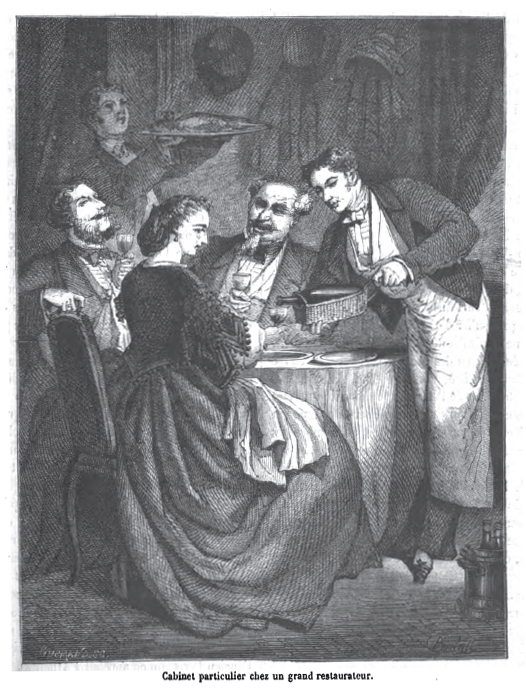 Dining booth in a french restaurant